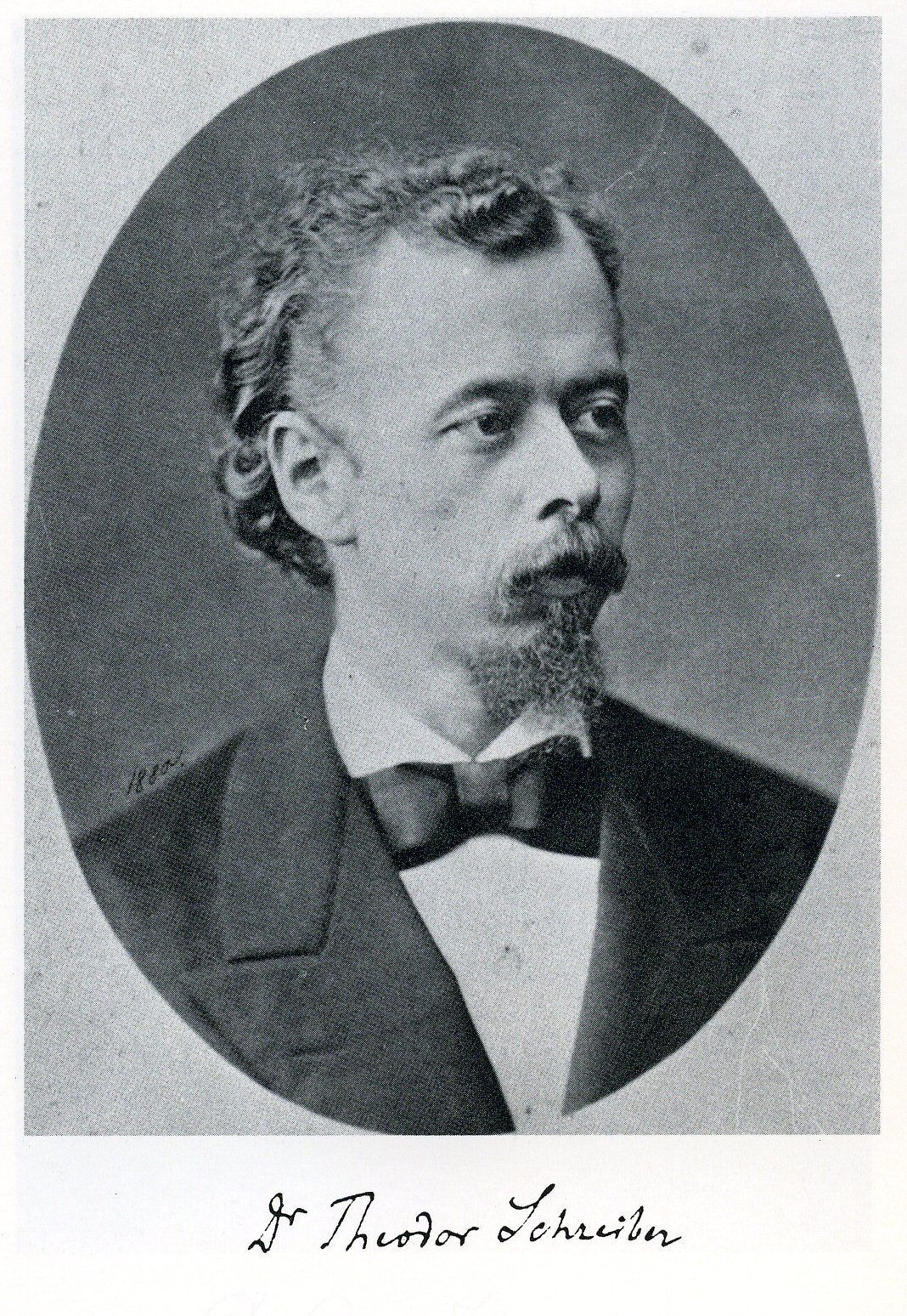 German Archaeologist Theodor Schreiber (1848-1912)